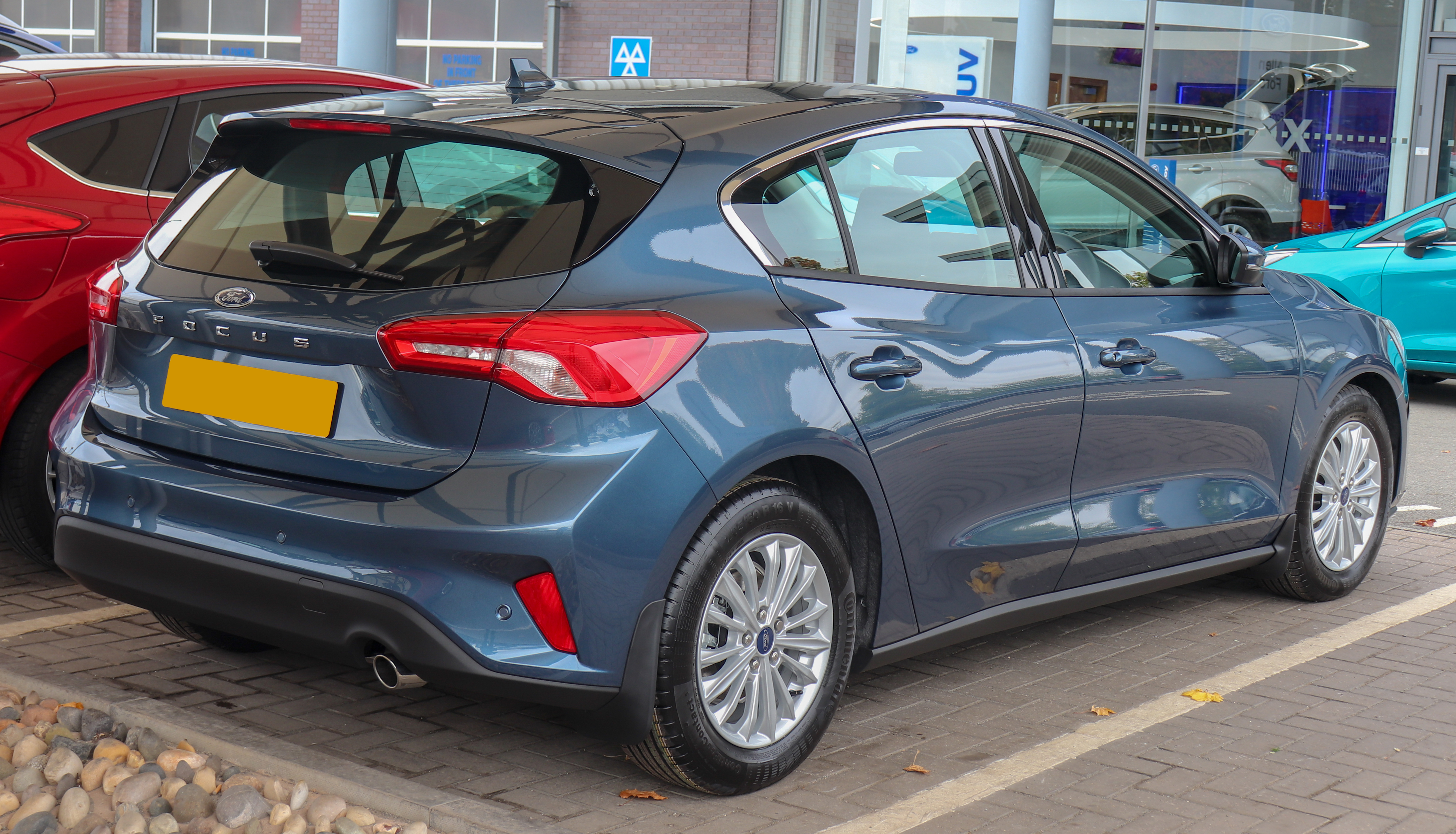 2018 Ford Focus Titanium EcoBoost 1.0 Rear Taken in Leamington Spa